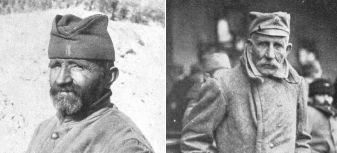 “Two reservists of the last defence”